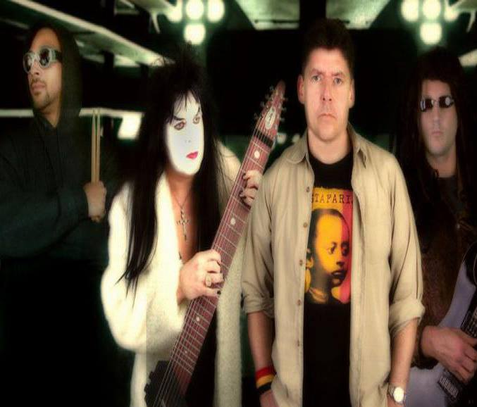 The Process Reggae Band